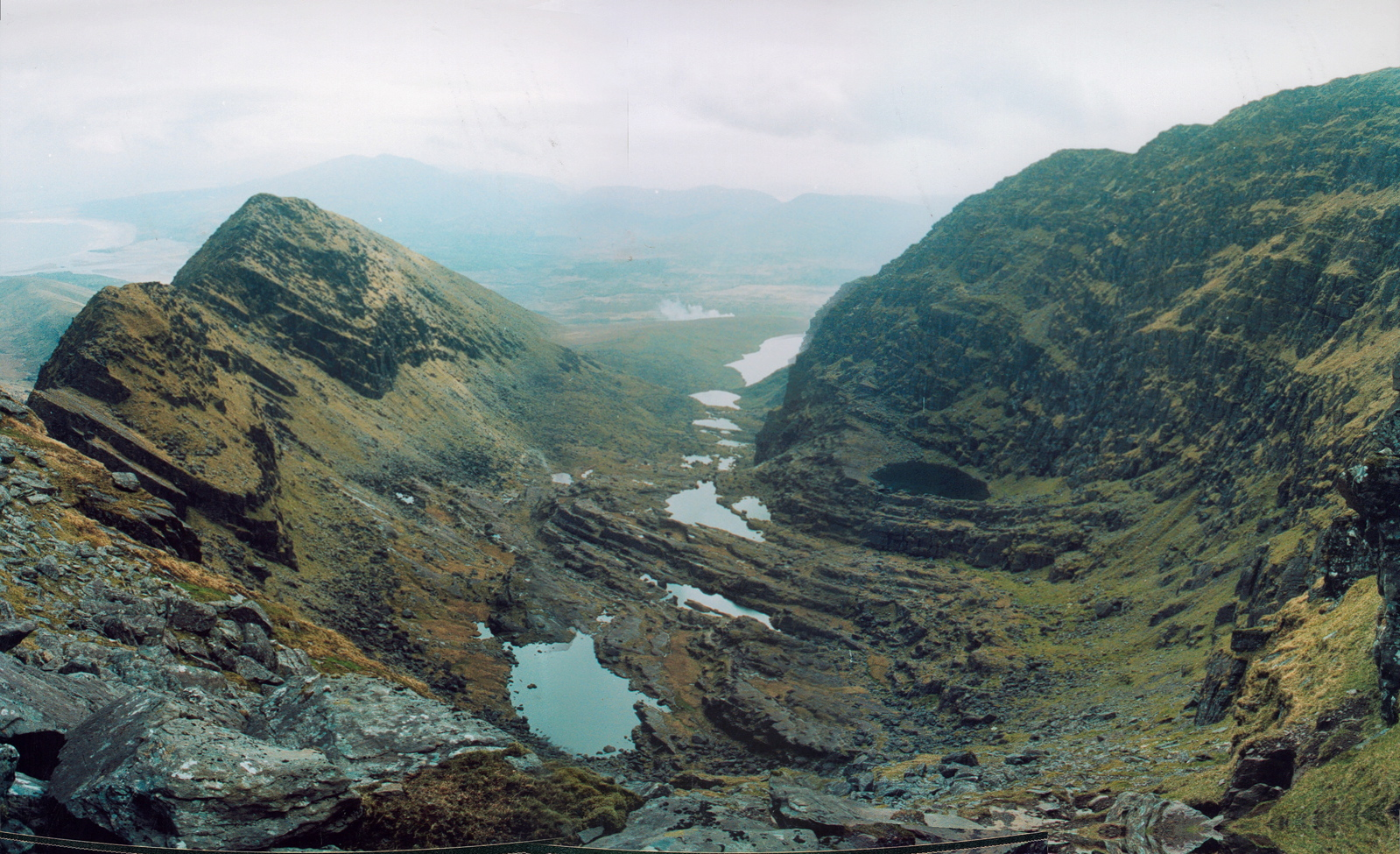 Looking down into the east corrie from below Brandon summit Scanned and stitched in Photovista (ages before I got CS)